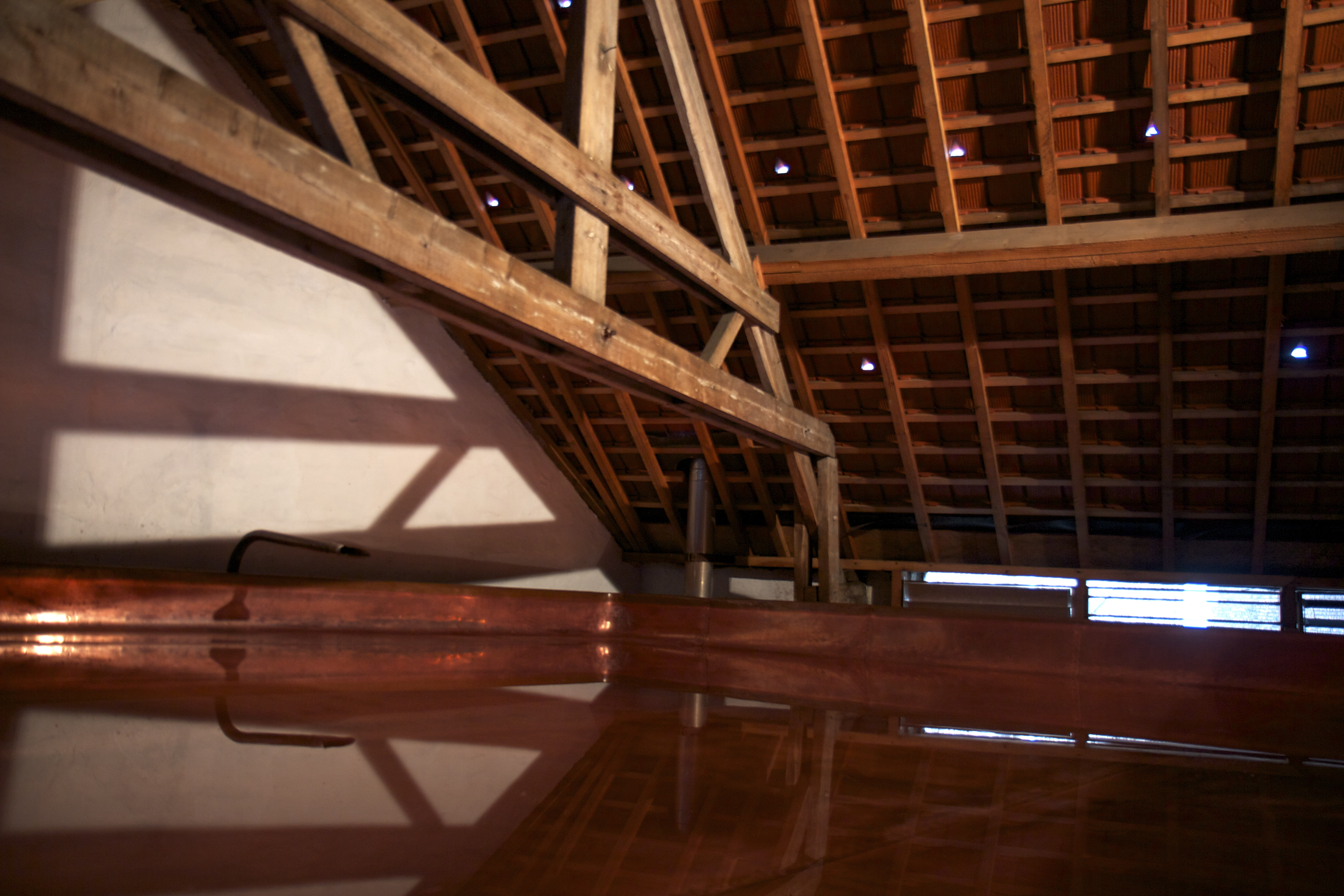 Copper-clad 'koelschip' at Cantillon Brewery/Musee Bruxellois de la Gueuze where wild fermentation occurs, making the unique sour flavor of the 'gueze' beer.